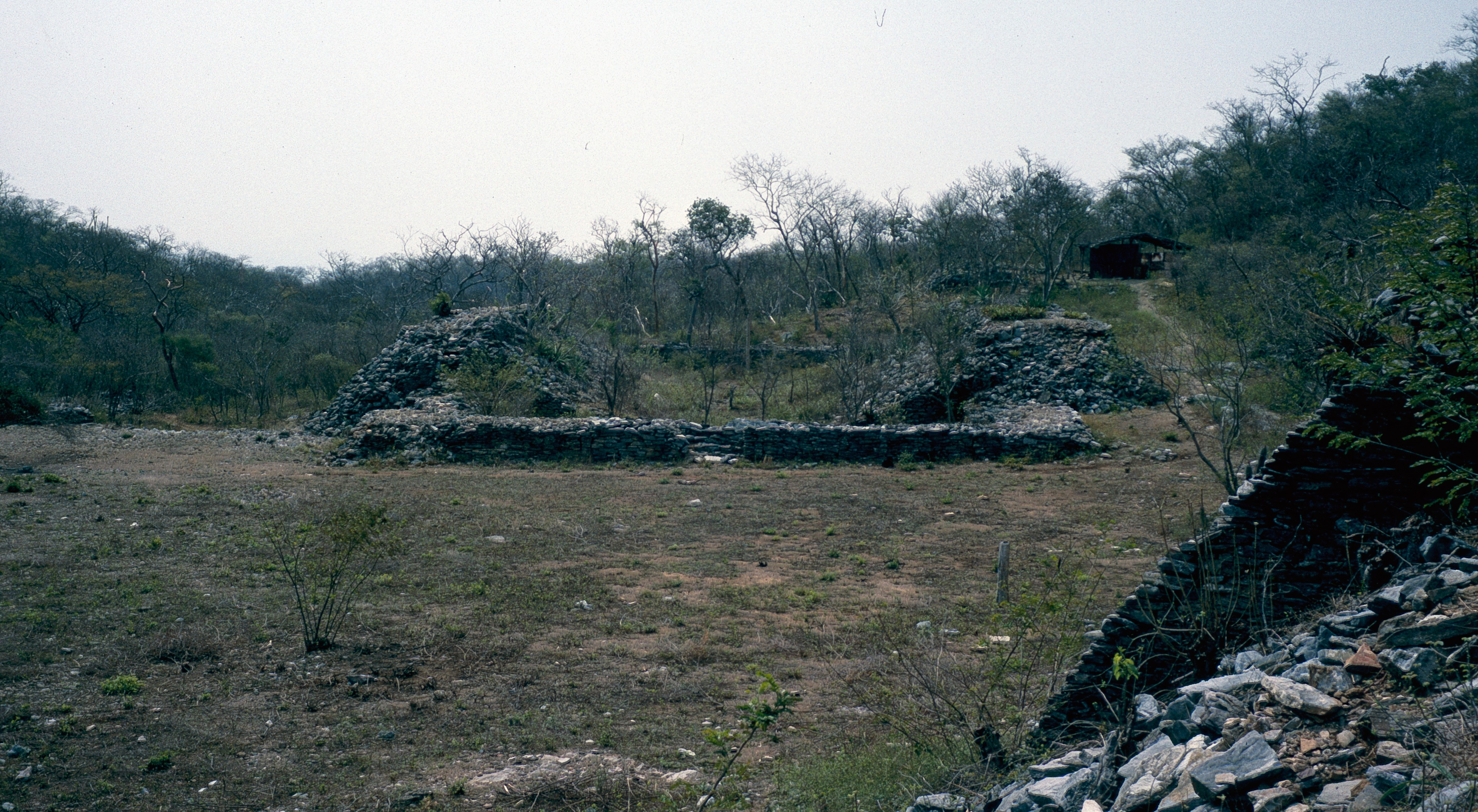 Guiengola, Oaxaca, Mexico: ball court